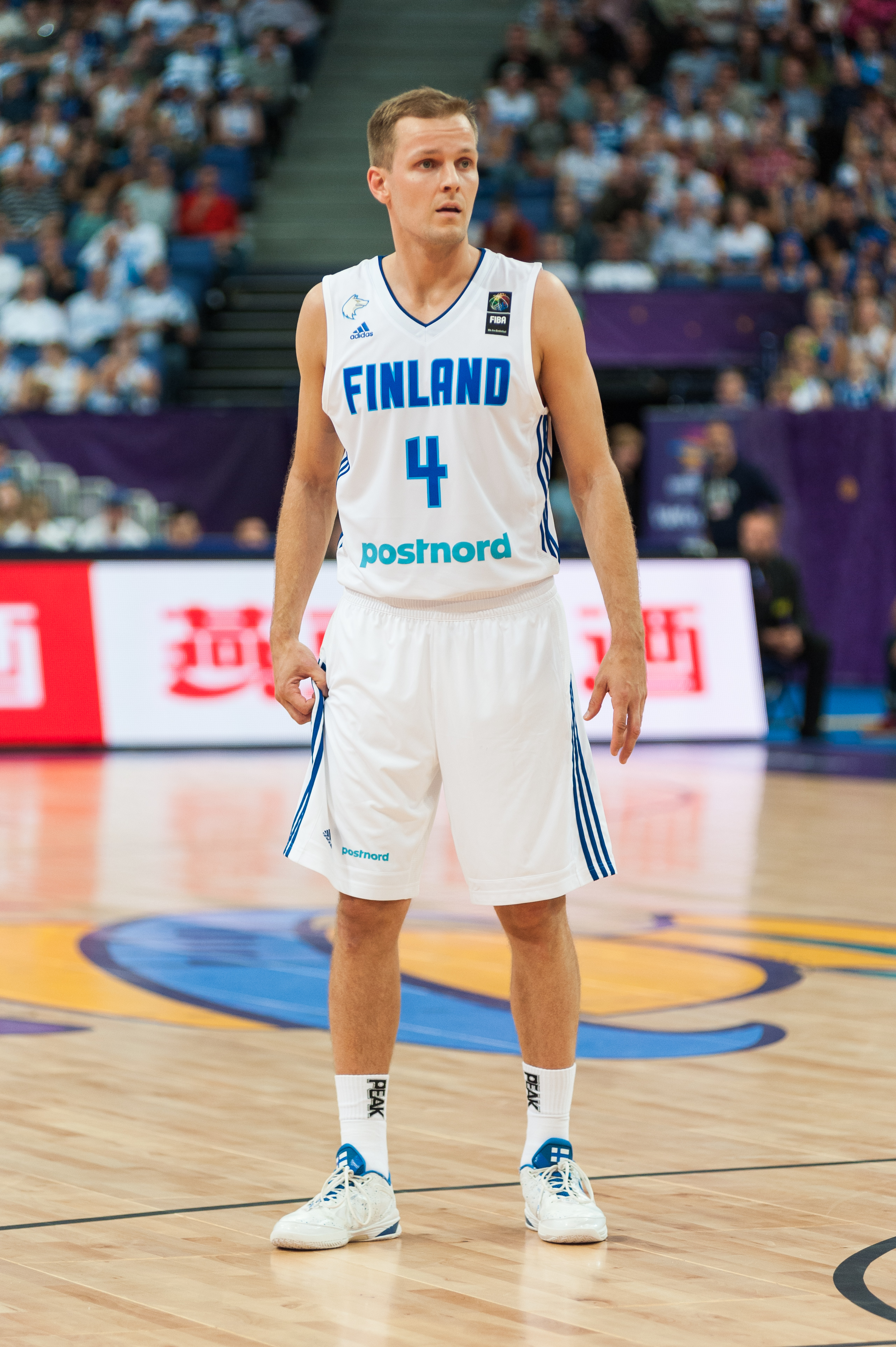 EuroBasket 2017 Group A game between Finland and Slovenia at Hartwall Arena in Helsinki, Finland.